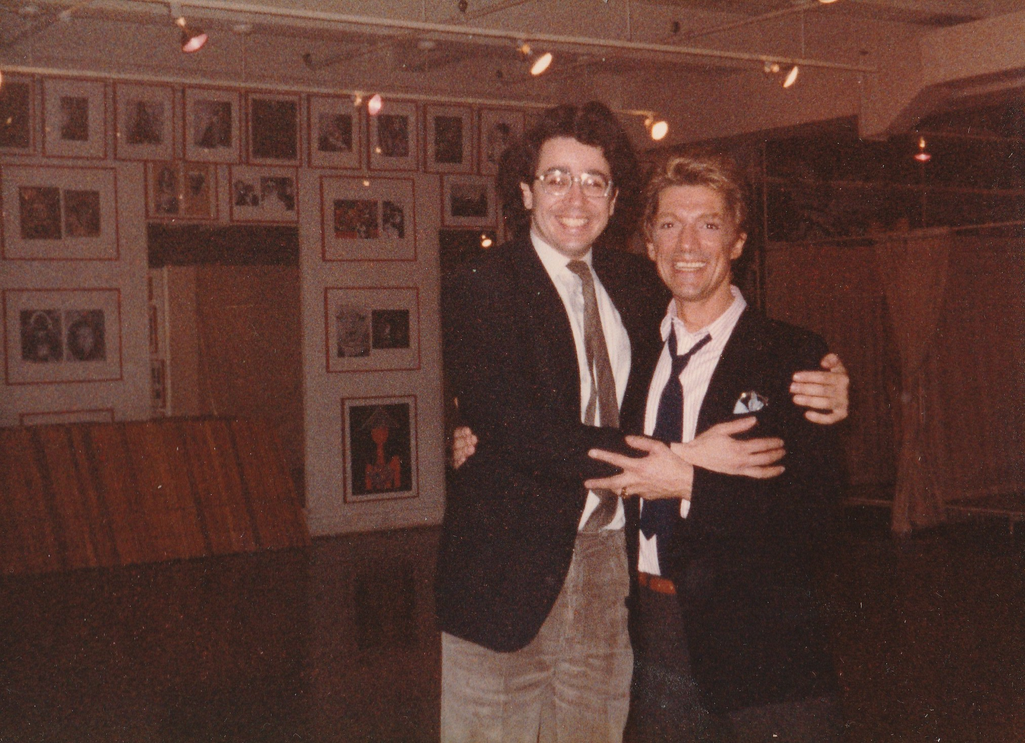 Giogio was part of The New York Triumvirate of Fashion Designers, which included Georgio, Halston and Calvin Klein. Laucke was frequently hired to play at the launching of their new lines.